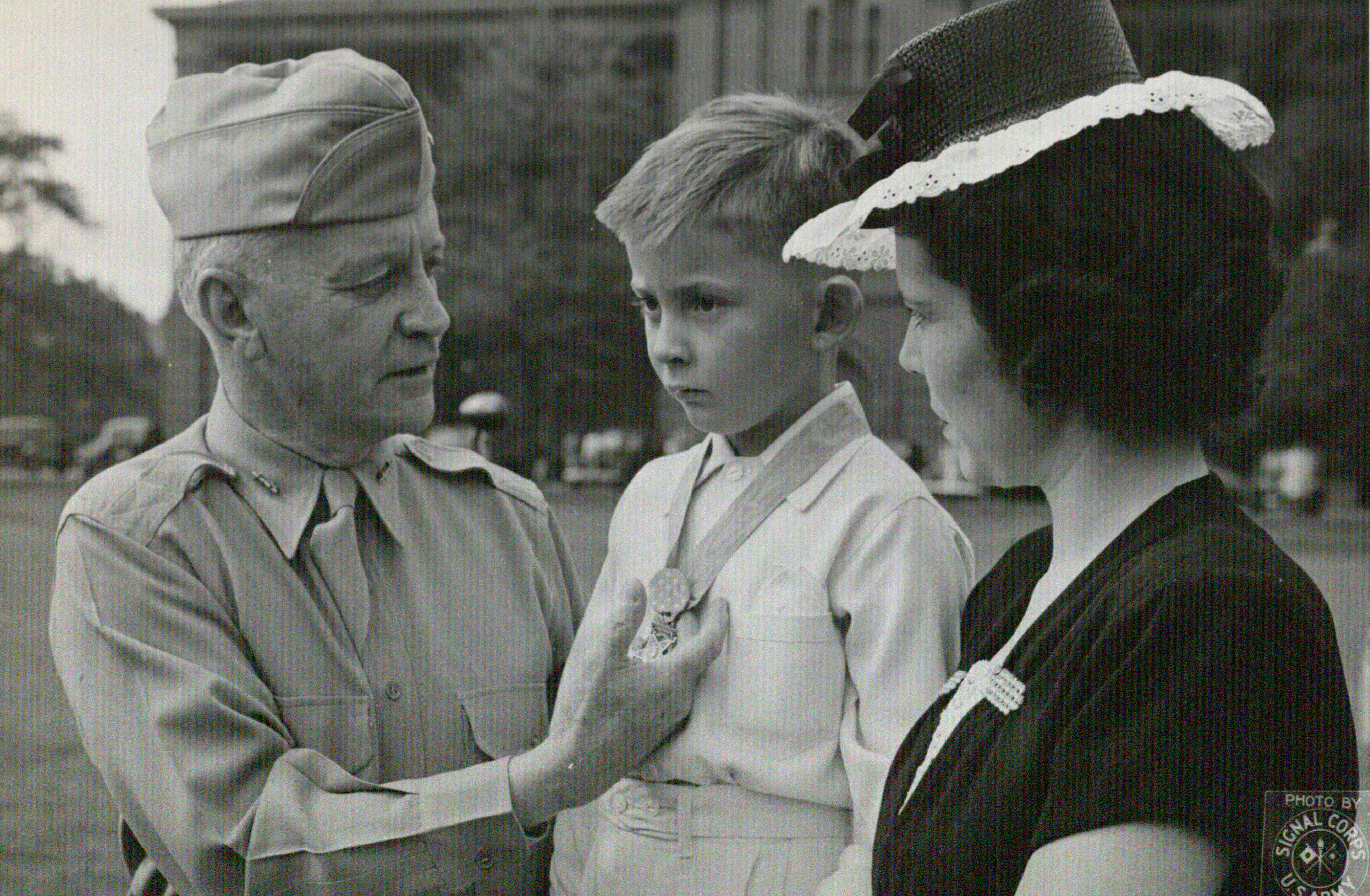 General James Lawton Collins presents Private Herbert F. Christian's Medal of Honor to his young son and wife at Fort Hayes.